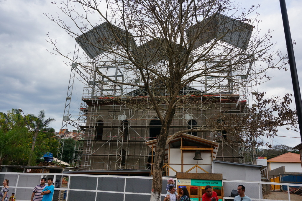 Igreja Matriz São Luiz de Tolosa under reconstruction, São Luiz do Paraitinga - SP, Brazil